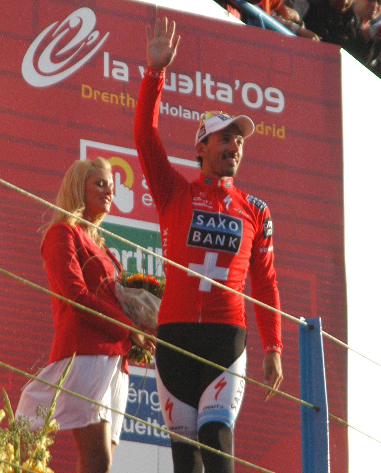 Fabian Cancellara (SUI) celebrated at a podium as the winner of the first stage of the 2009 Vuelta a España.